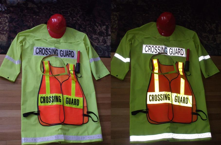 Crossing Guard Outfit with a Hi-Visibility Vest, lanyard with whistle, strobe beacon, raincoat, and Hard-hat. Both pics show usage in normal light, and when light (in this case, from a camera flash) reflects off the clothing.